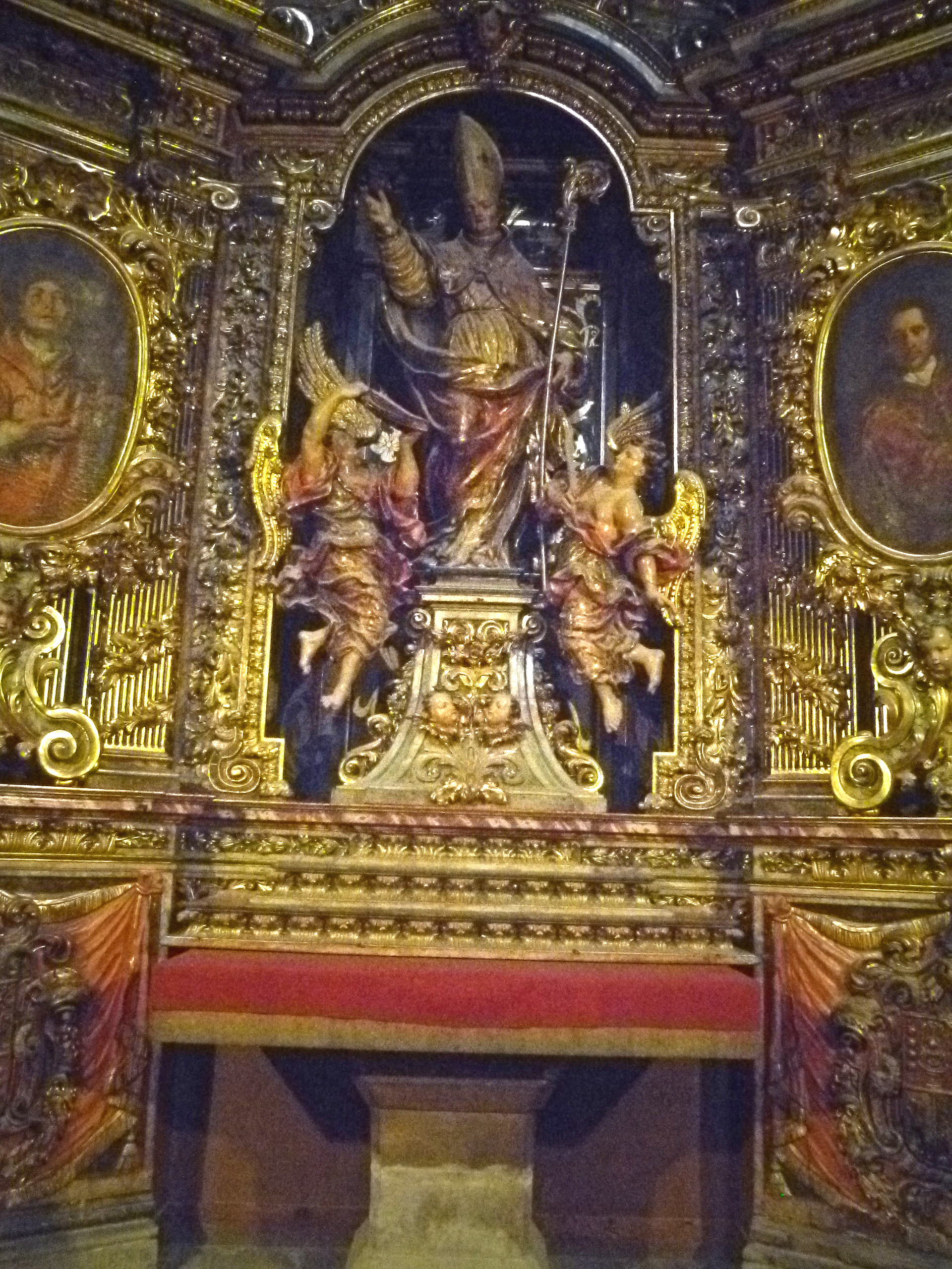 "Altarpiece of Saint Narcissus" by Pau Costa (1718-1724), painting by Antoni Viladomat (1718-1727); Chapel of Saint Andrew; Cathedral of Girona, Spain